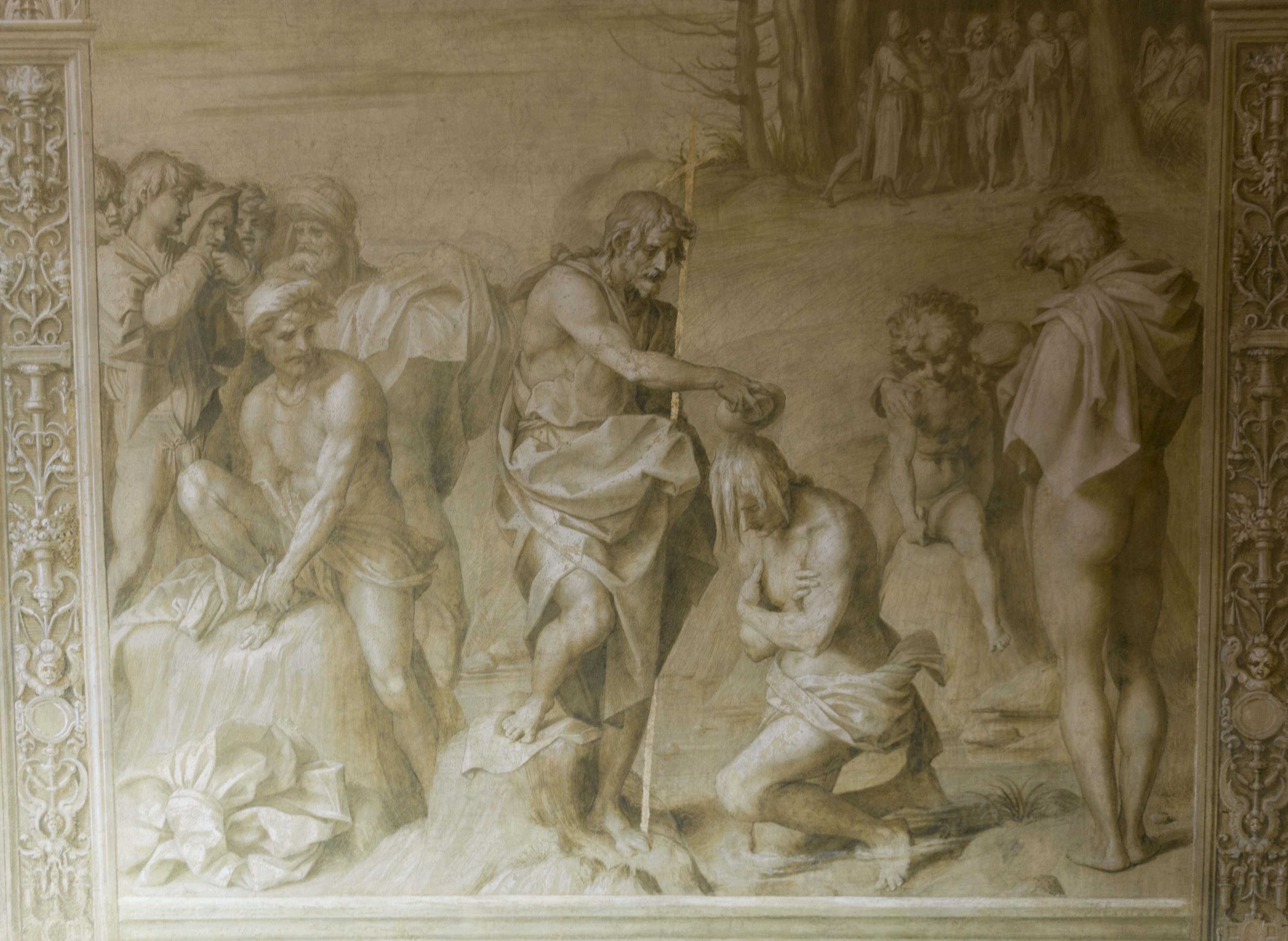 "The Baptism of the Crowds", by Andrea del Sarto